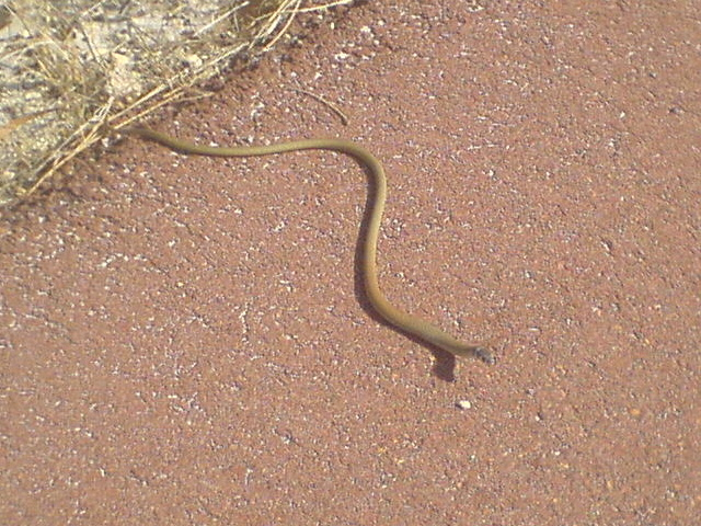 Cropped version of Dugite_on_a_walking_path.jpg. Original description: "I took this photo of a dugite while walking next to the Roe Highway, in Perth Western Australia."